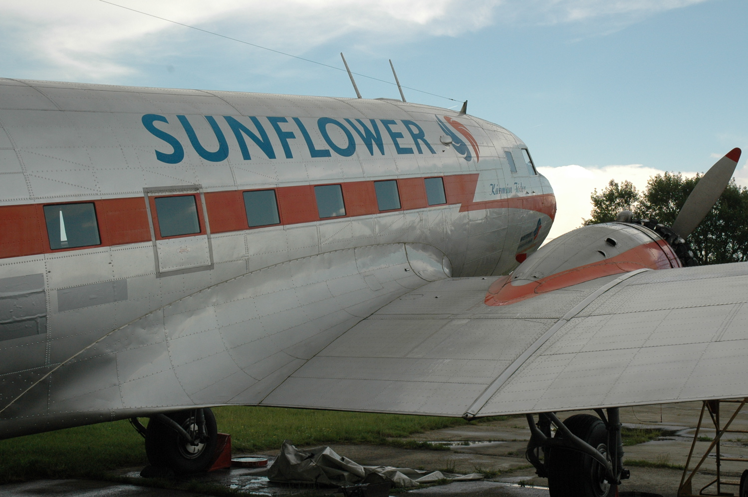 Lisunov Li-2 (reg. HA-LIX, Budaörs, Hungary)